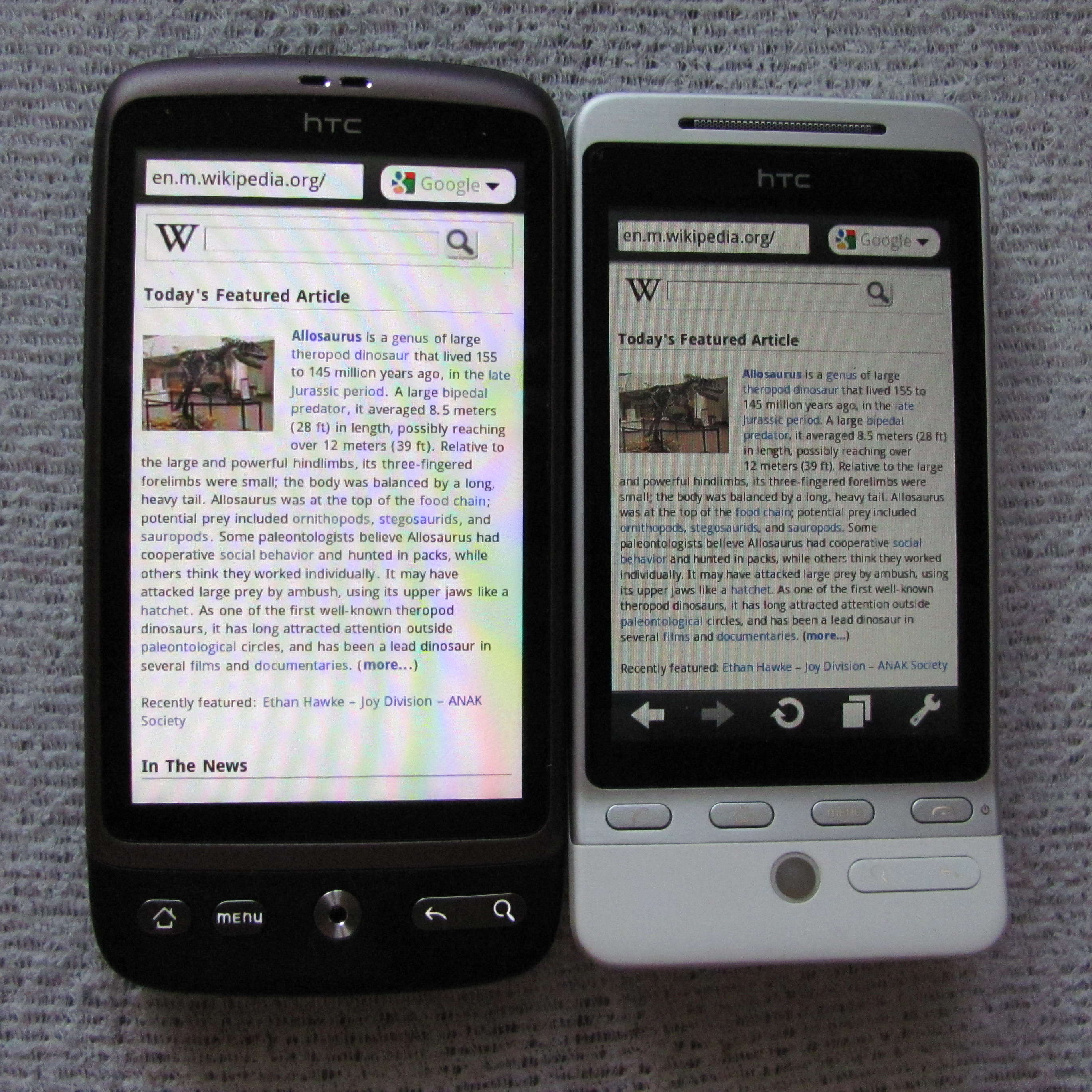 On HTC Desire and Hero. With (almost) the same settings.